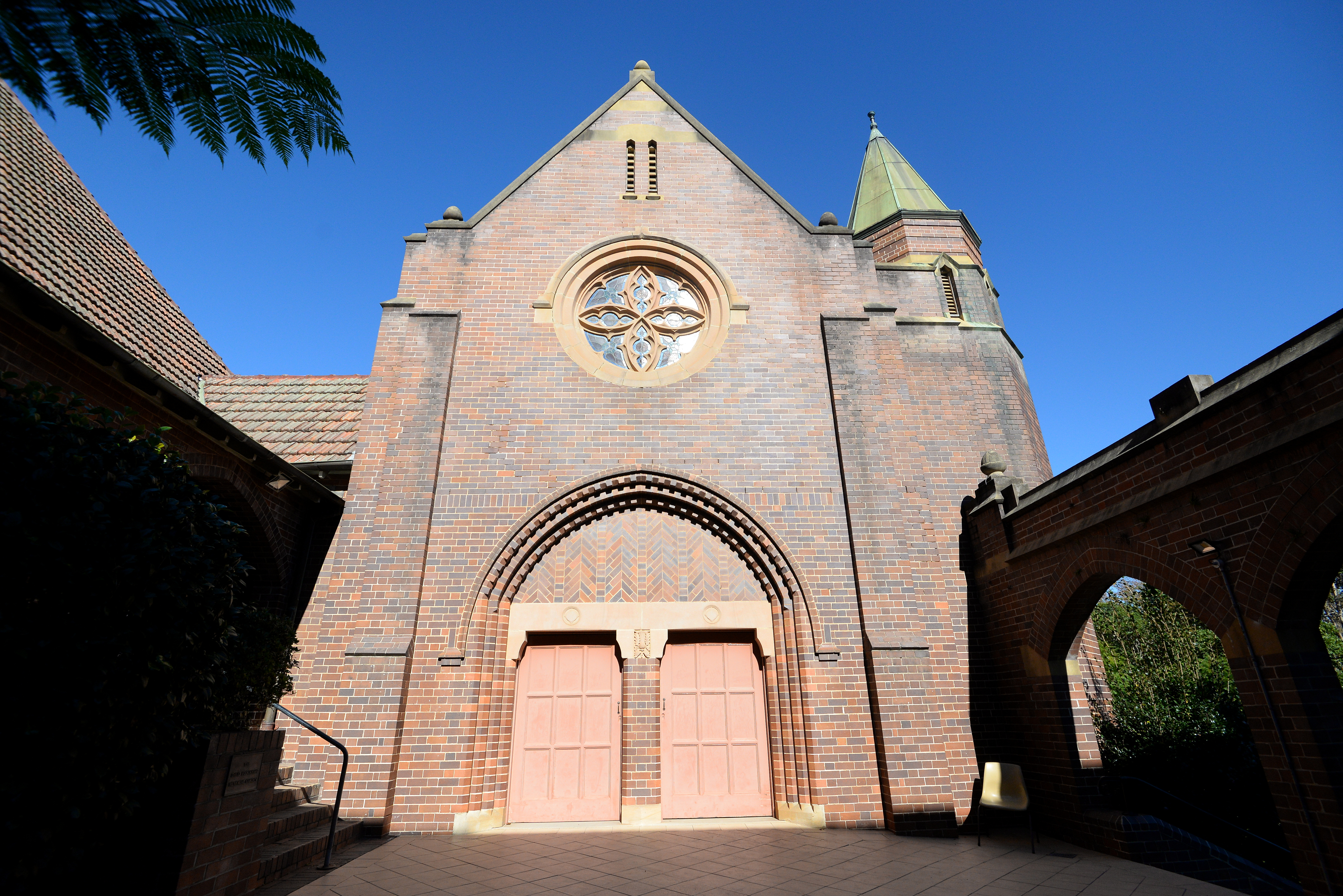 St John's Church, Wahroonga, Sydney